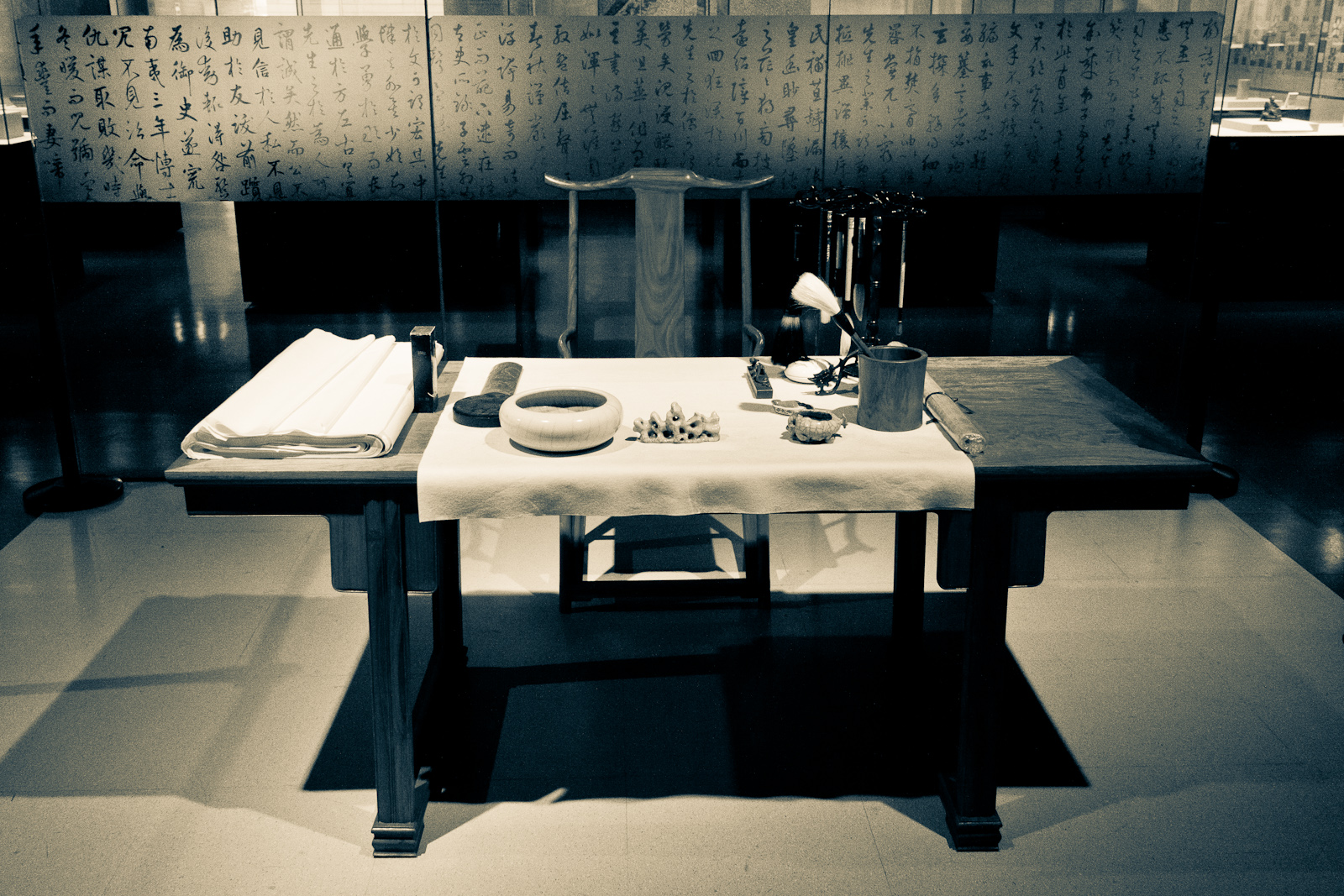 Four treasures of the Study - brush, ink, paper and ink stone in Chinese and other East Asian calligraphic traditions